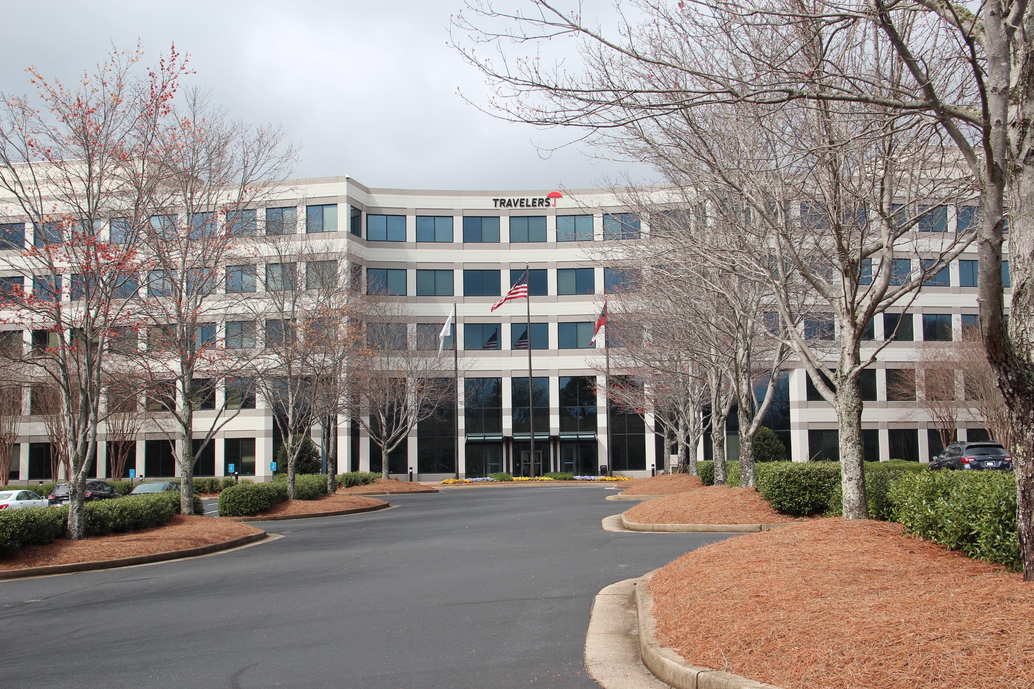 1000 Windward Concourse, an office in Alpharetta